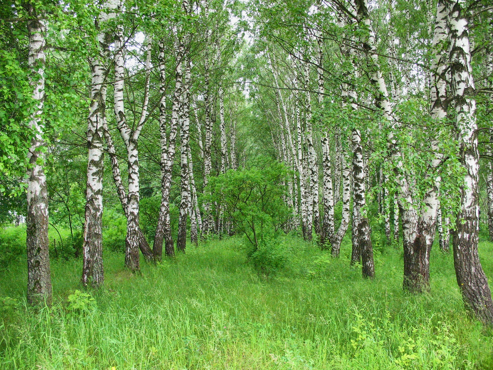 Silver Birch. Between Shchyokino and Yasnaya Polyana